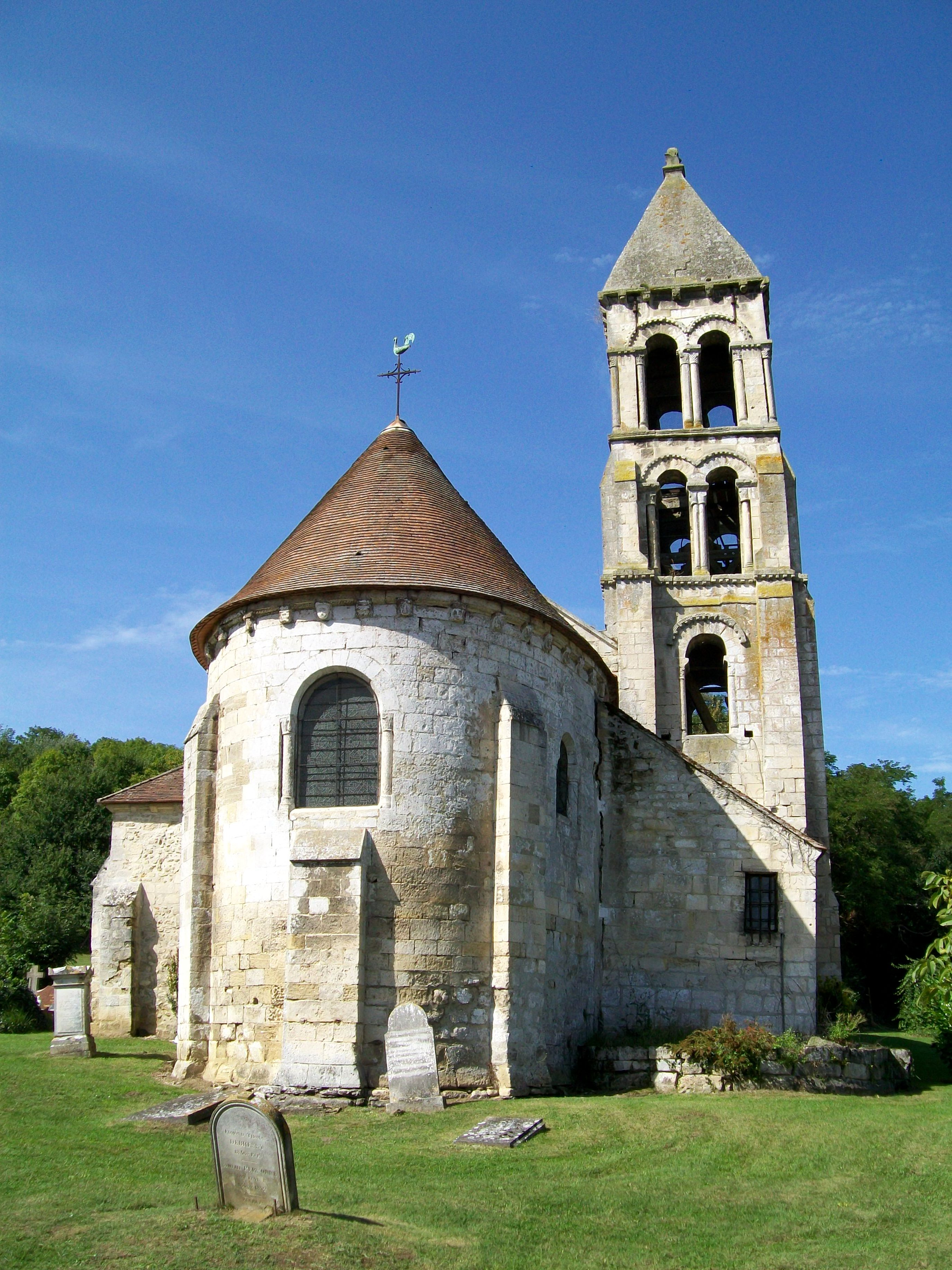 L'église romane de Rhuis, dont la construction a commencé au XIe siècle ; vue sur le chœur.